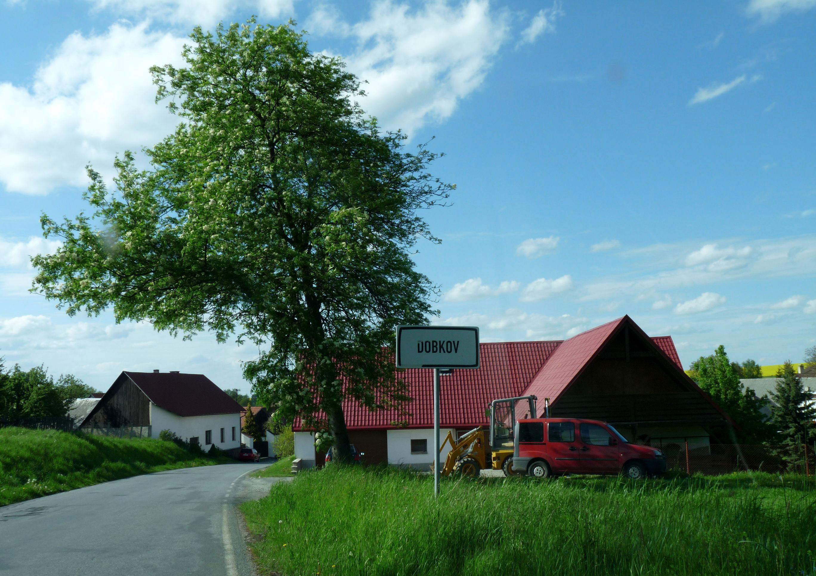 Municipal border sign of in the village of Dobkov, Havlíčkův Brod District, Vysočina Region, Czech Republic.